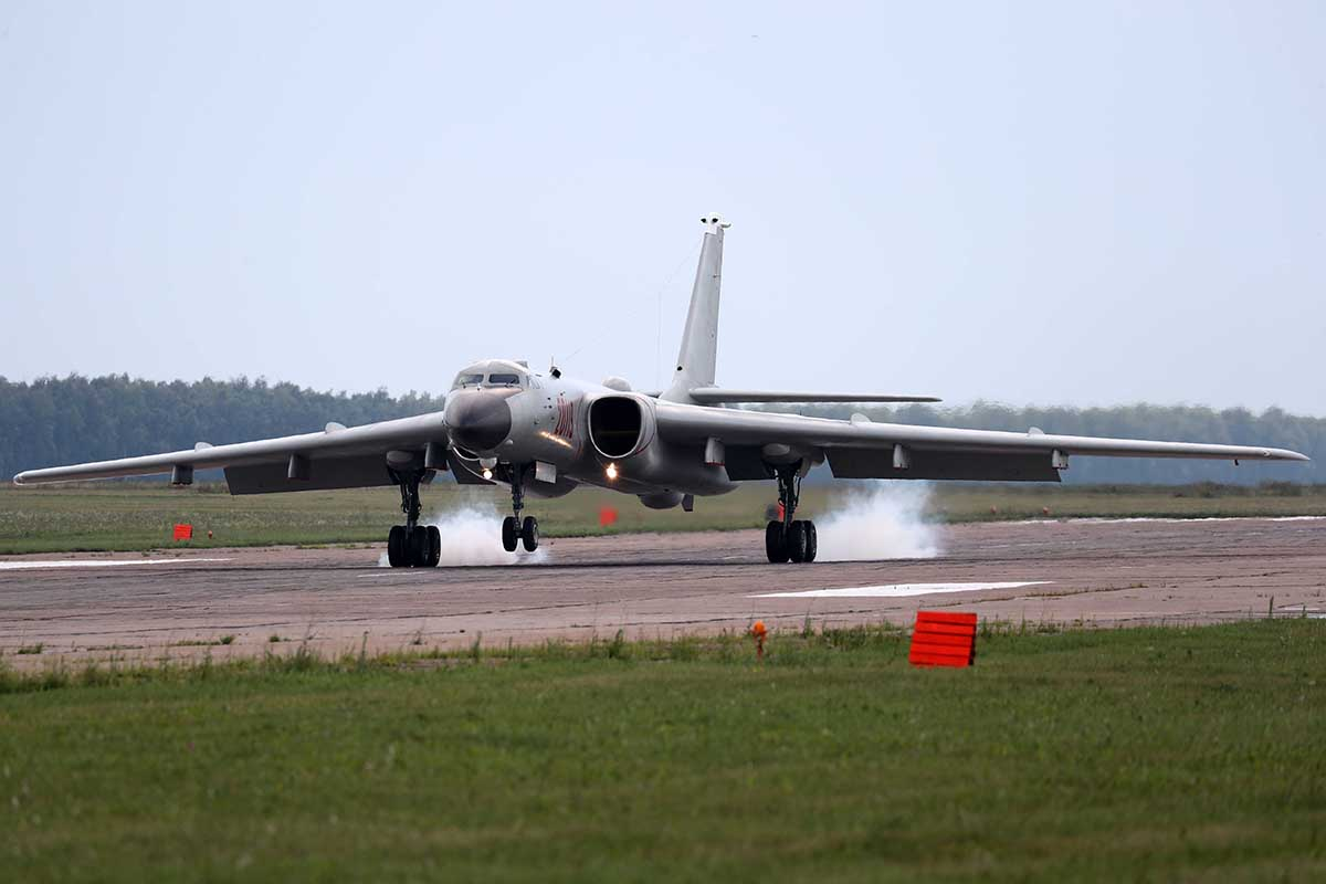 Xian H-6.